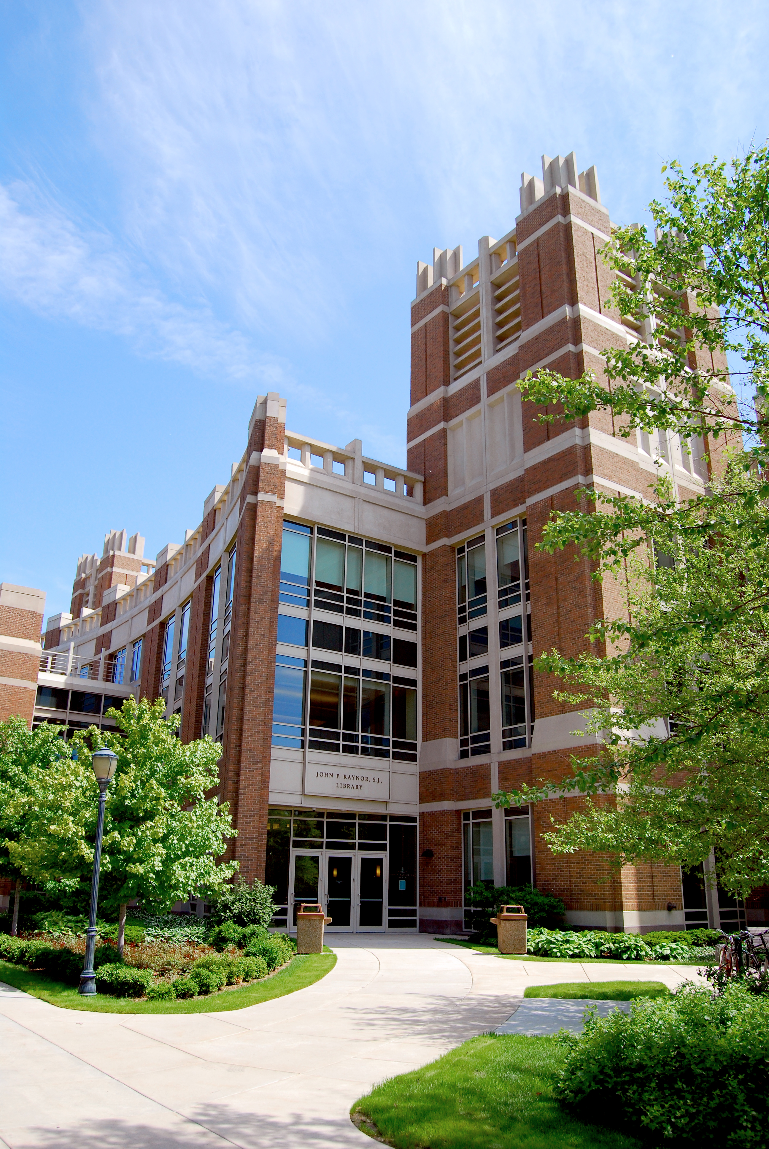 The main library at Marquette University (Milwaukee, Wisconsin). Photo taken in June, 2008. © Matthew Hendricks (image self-created and owned by SCUMATT (talk) 04:55, 18 June 2008 (UTC); released under Creative Commons license).